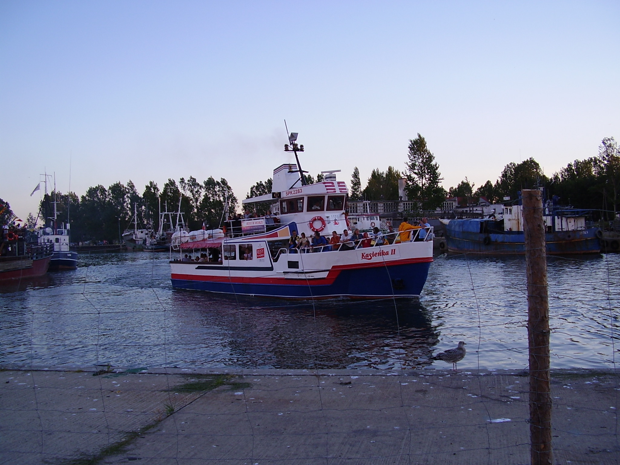 ship Kasieńka II at the harbour in Łeba (Poland)